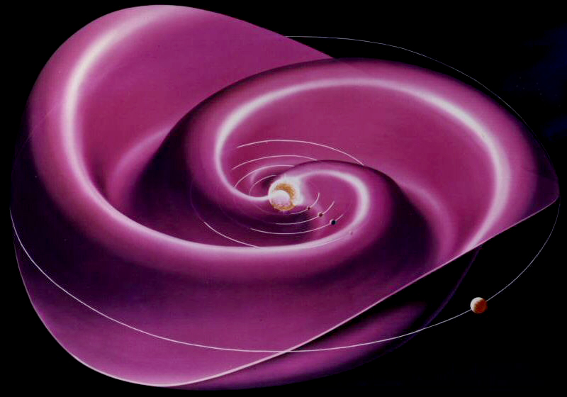 Heliospheric current sheet, the largest structure in the Solar System, resulting from the influence of the Sun's rotating magnetic field on the plasma in the interplanetary medium (Solar Wind). The wavy spiral shape has been likened to a ballerina's skirt. Image credit: NASA artist Werner Heil